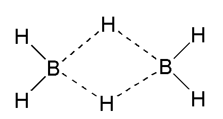 Natural state of Borane molecule